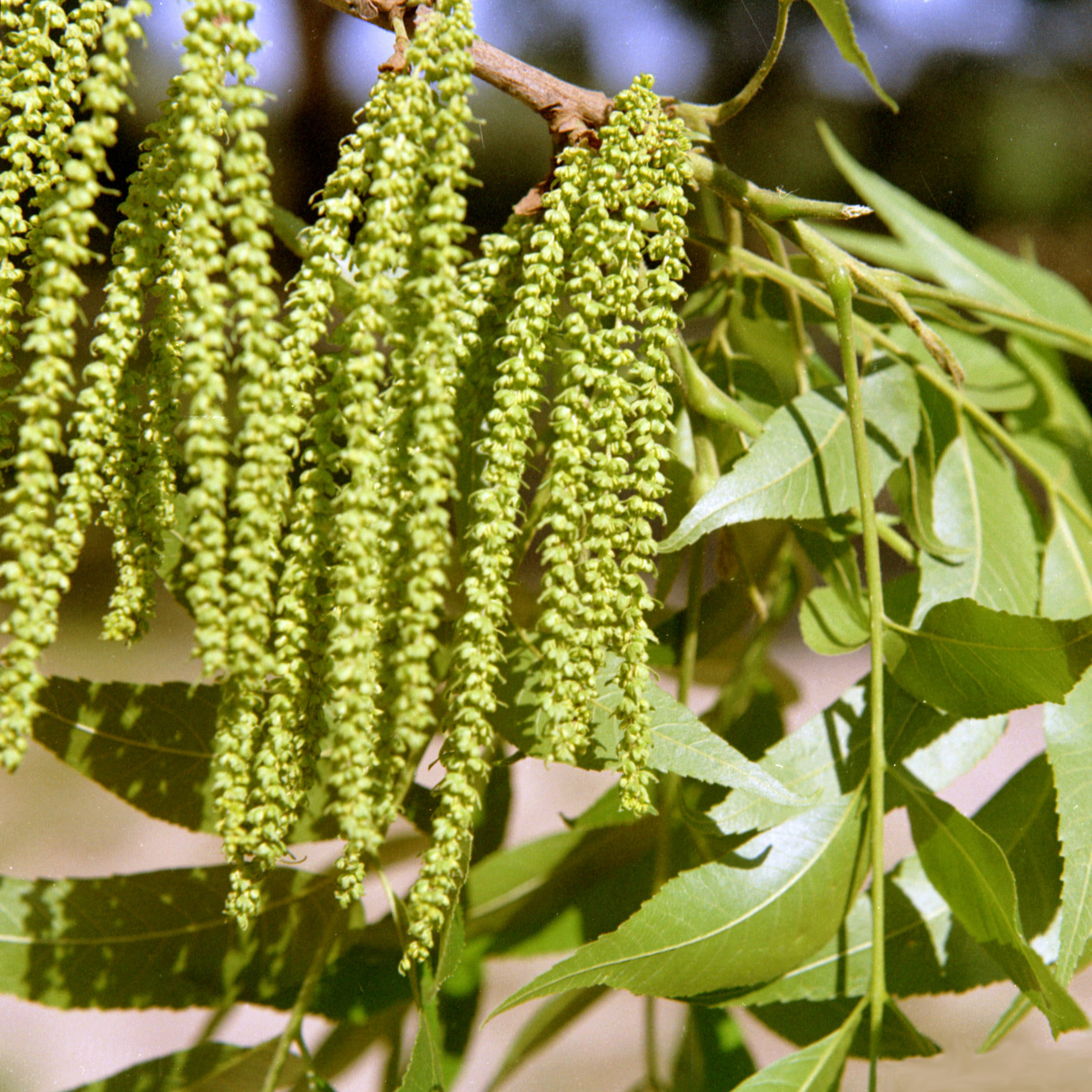 Carya illinoinensis catkins